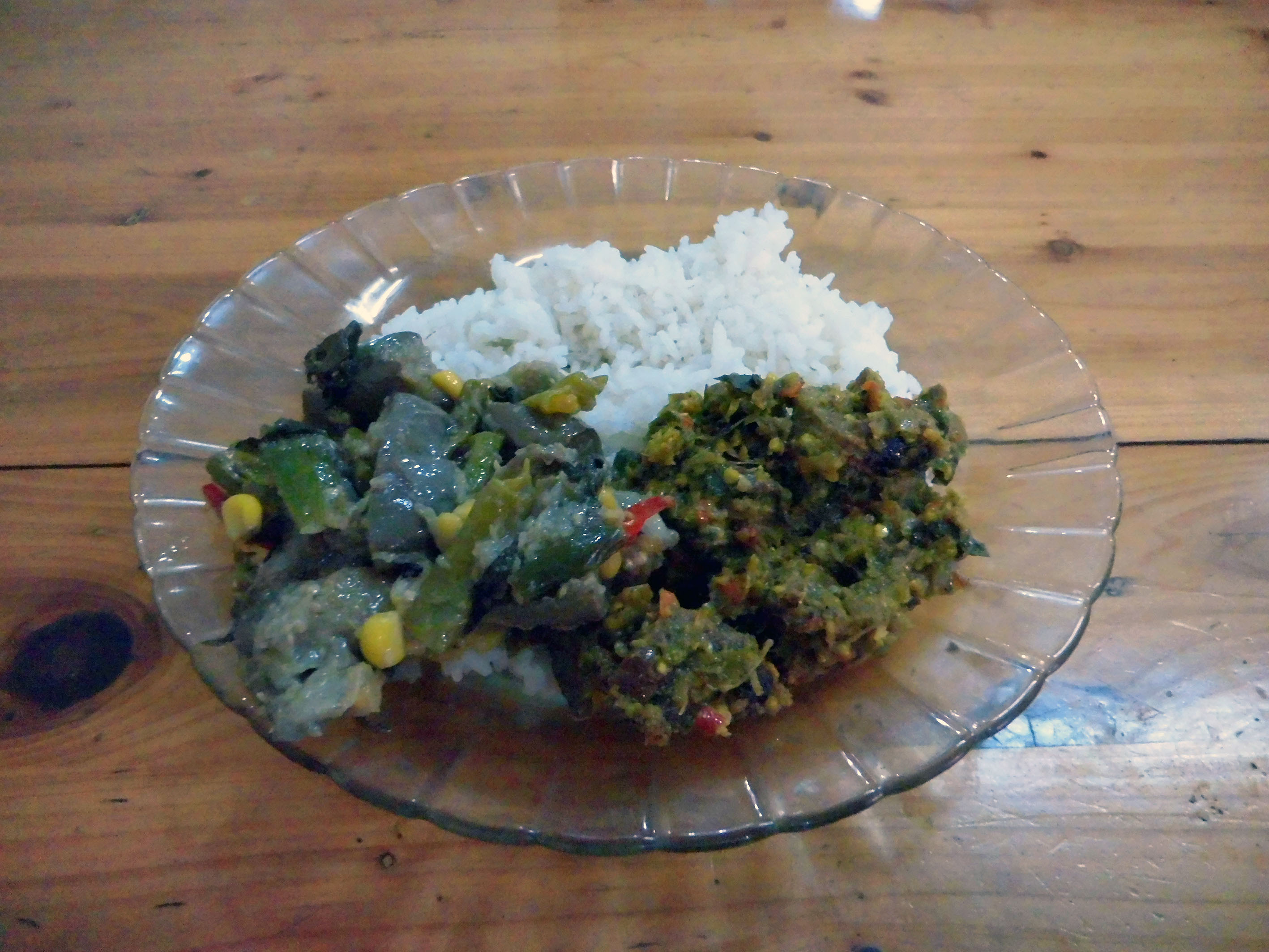 Richly spiced Babi Tinorangsak (pork Tinorangsak, right) and Tumis Terong (stir fried eggplant, left), served with steamed rice. A Manado (Minahasan) cuisine from North Sulawesi. Served in Manado Restaurant in Rawasari, Central Jakarta.